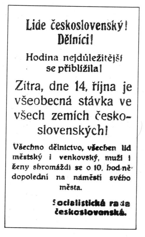 Announcement of general strike, 14th October 1918. Czechoslovak people! Workers! The most important hour has come near! Tomorrow, on the 14th of October is the general strike in all Czecho-Slovak lands! All workers, all urban and rural people, men and women shall gather at 10 a.m. in the square of their town. Czechoslovak Socialist Council